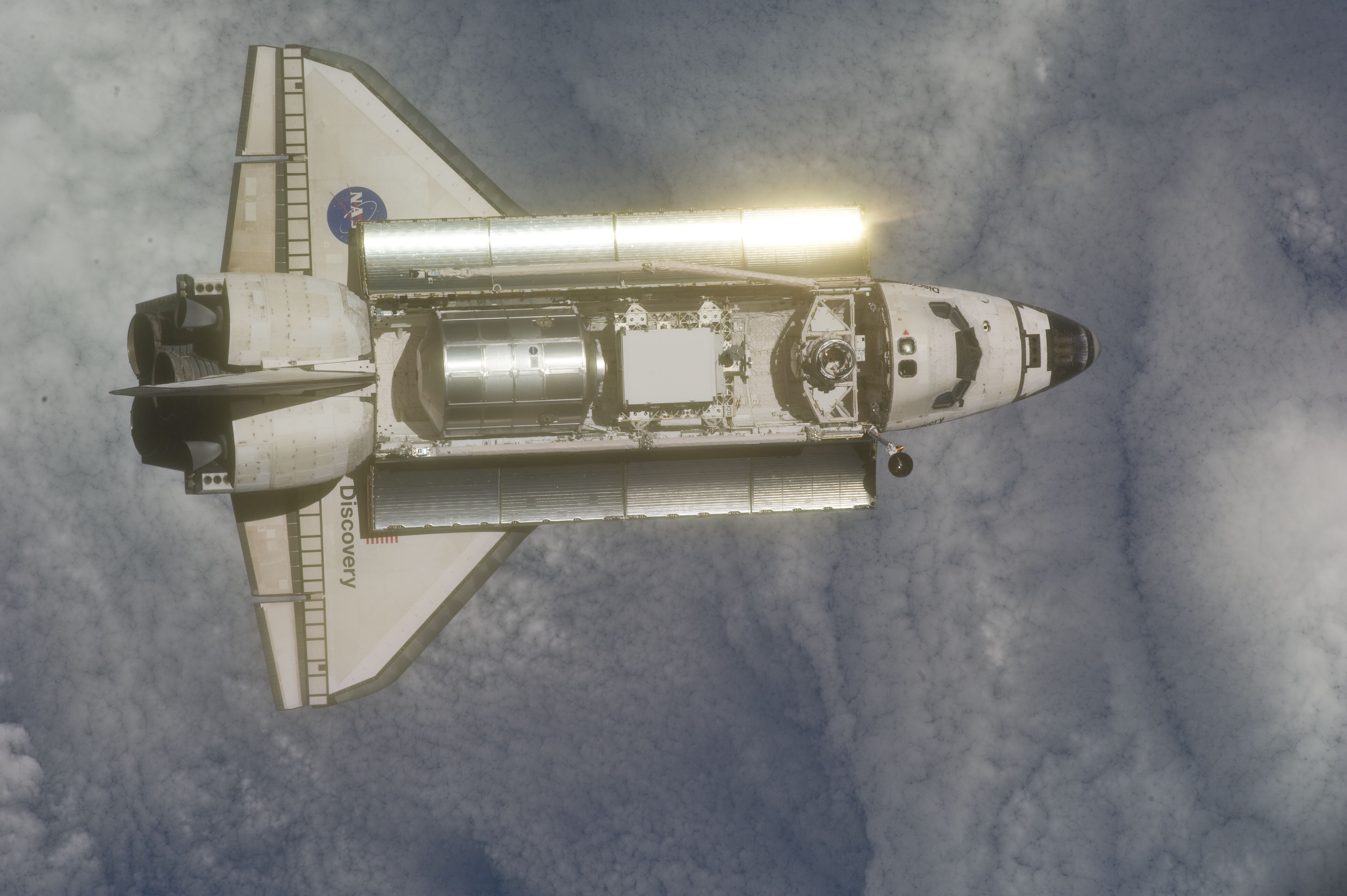 Backdropped by a cloud-covered part of Earth, space shuttle Discovery is featured in this image photographed by an Expedition 26 crew member as the shuttle approaches the International Space Station during STS-133 rendezvous and docking operations. Docking occurred at 2:14 p.m. EST on Feb. 26, 2011.